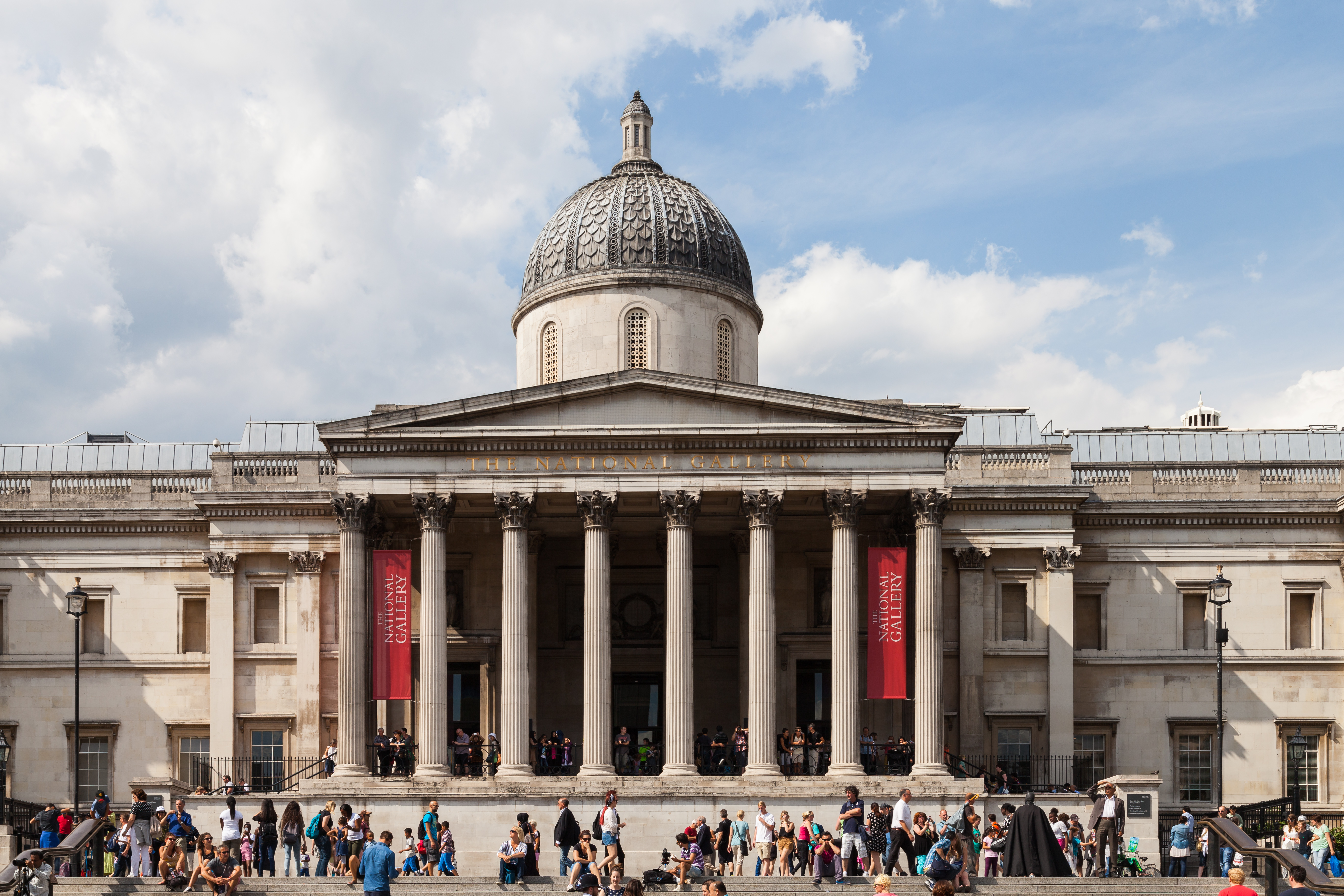 National Gallery, London, England